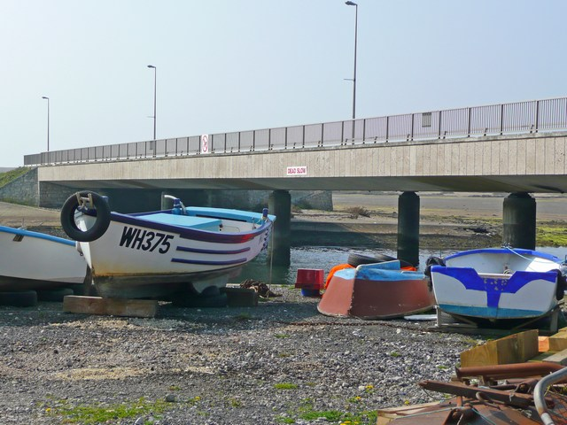 Ferry Bridge This bridge connects the mainland at Wyke Regis with the Portland Causeway. It replaces a former ferry service, hence the name.